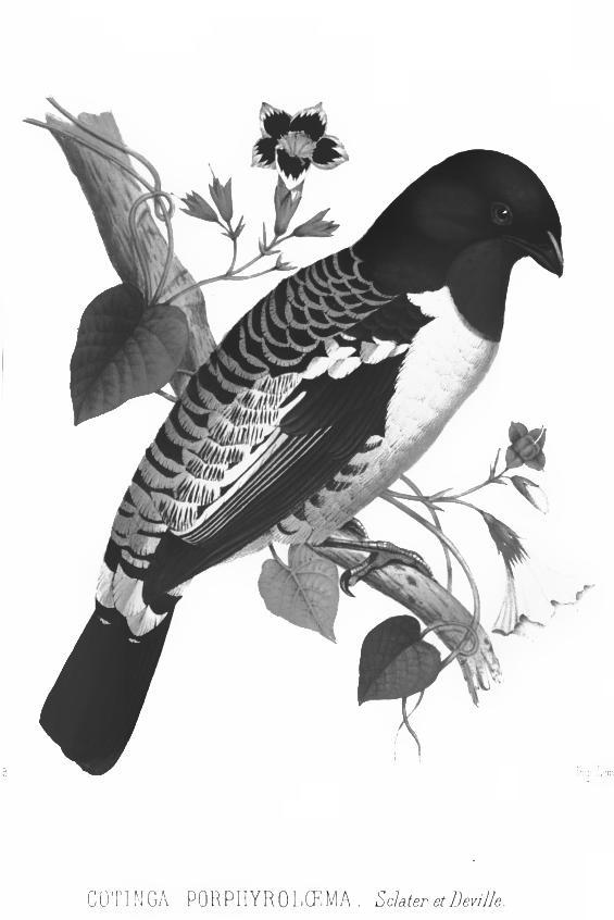 Original plate of the Purple-throated Cotinga